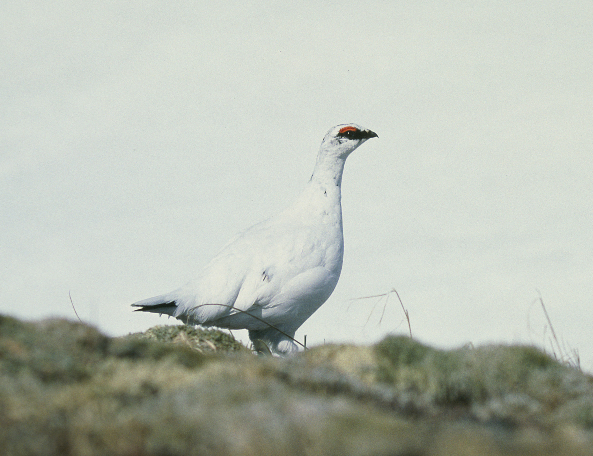 Lagopus muta rupestris, Alaska.